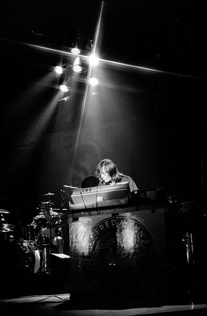 Manfred Mann, Chateau Neuf, Oslo, Norway